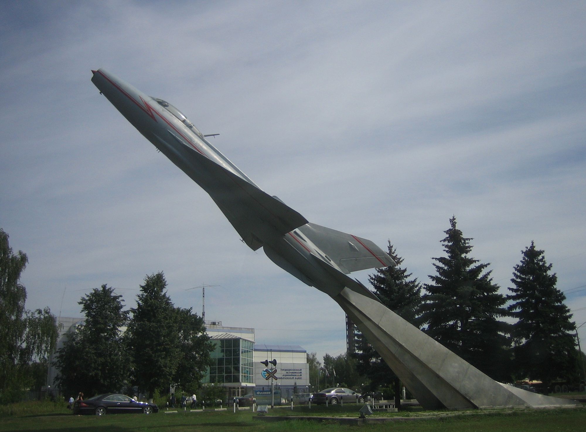 The aircraft industry monument in Zhukovsky.